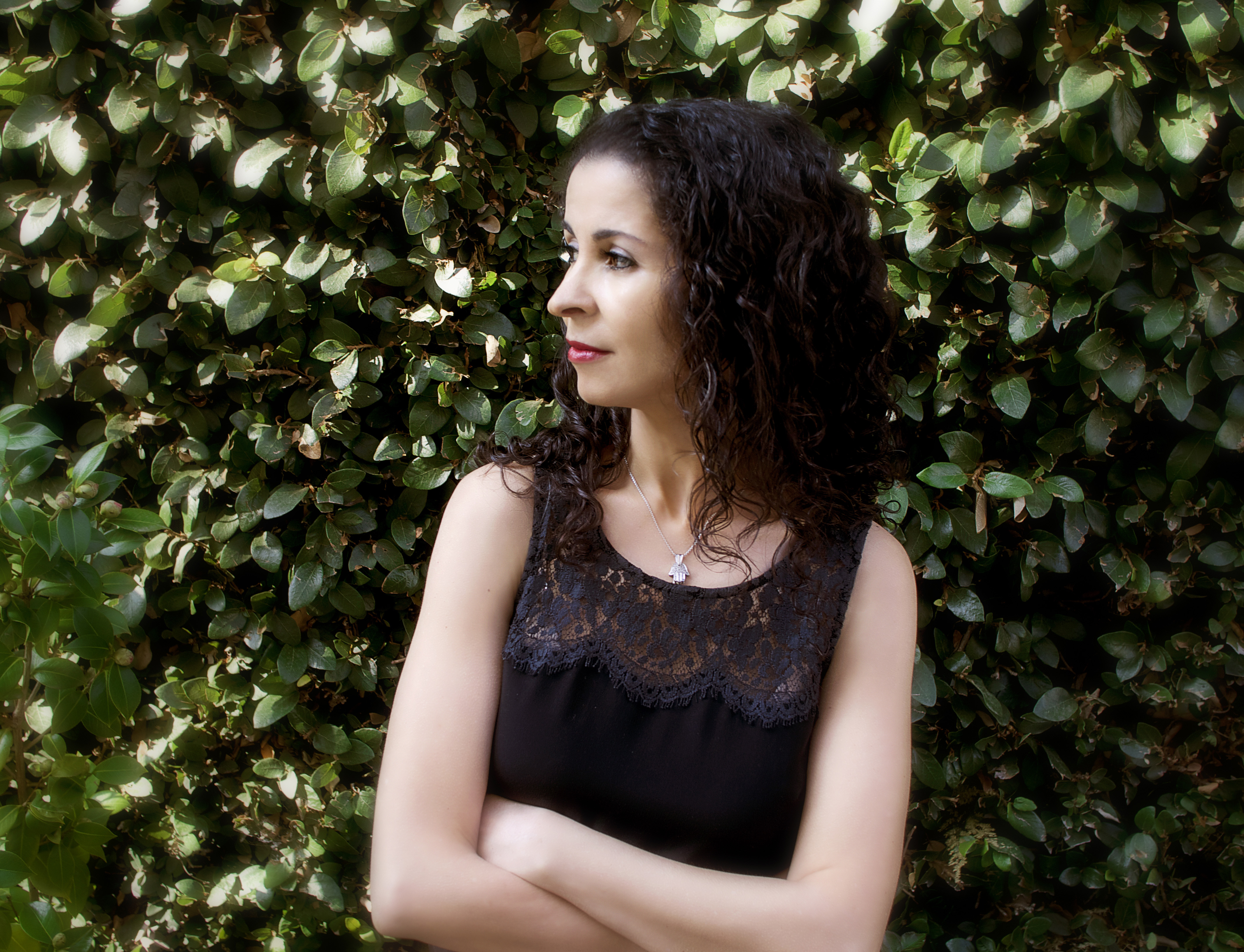 Laila Lalami Author Photo